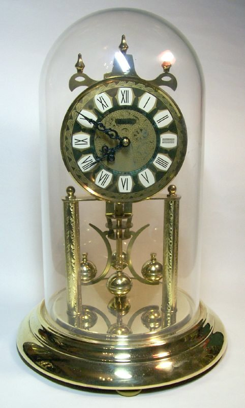 A torsion pendulum or anniversary clock made by S Haller & Sohne in Germany